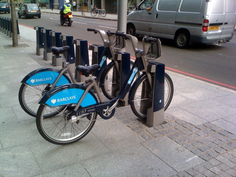 Image of London Barclays Cycle Hire bicycle taken by myself